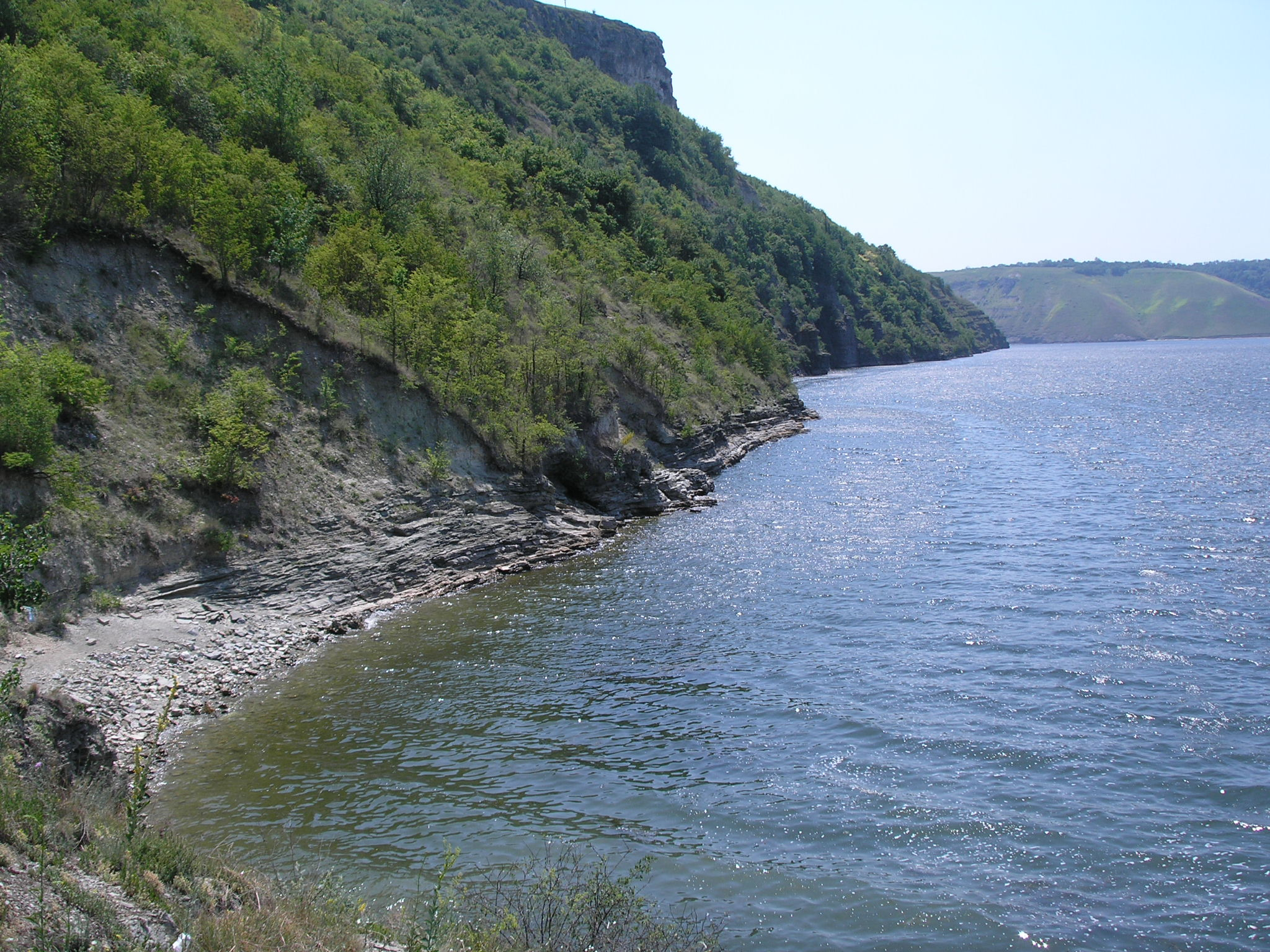 The historical town of Bakota in western Ukraine.